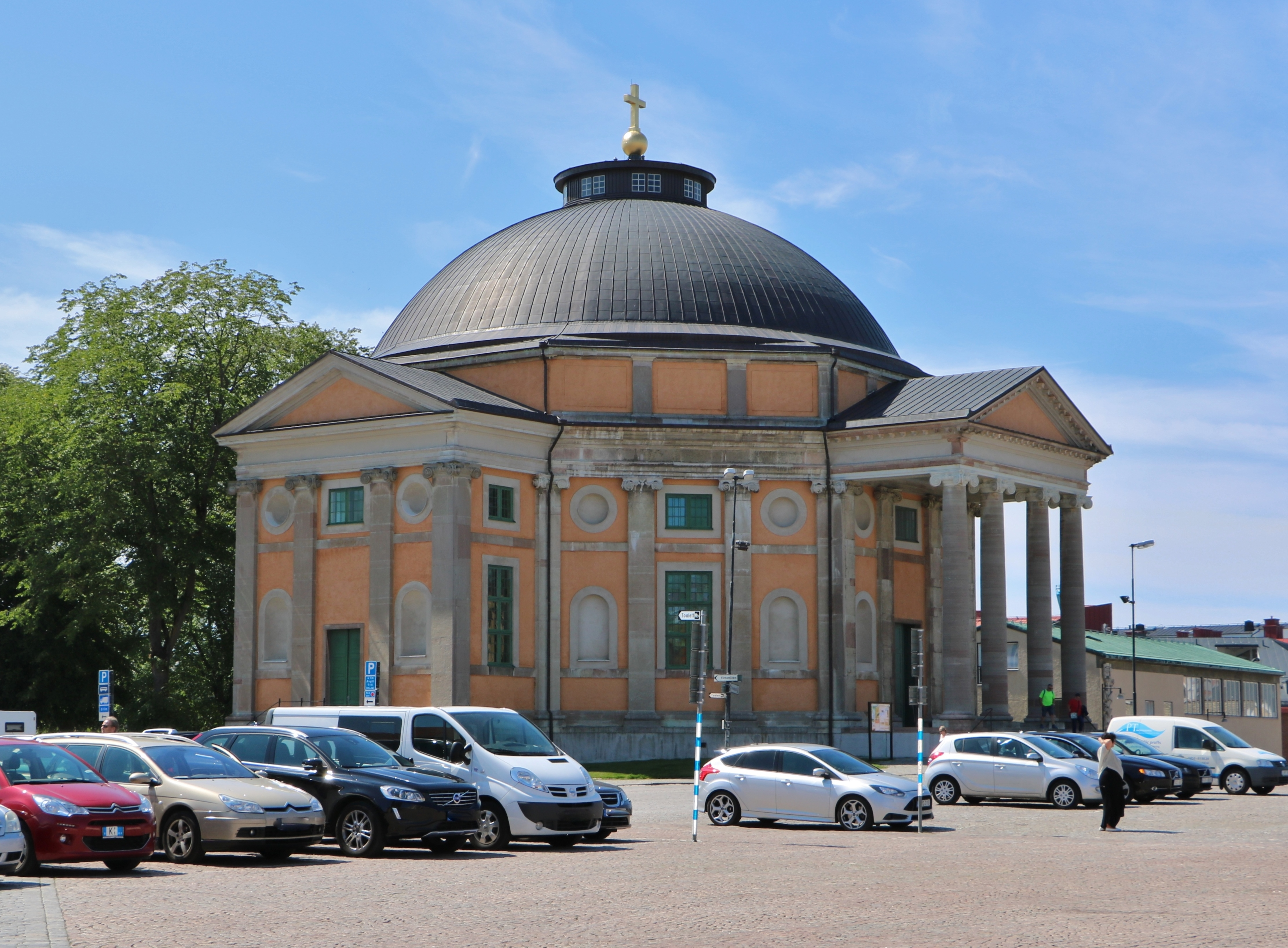 Holy Trinity Church, Karlskrona.Exterior